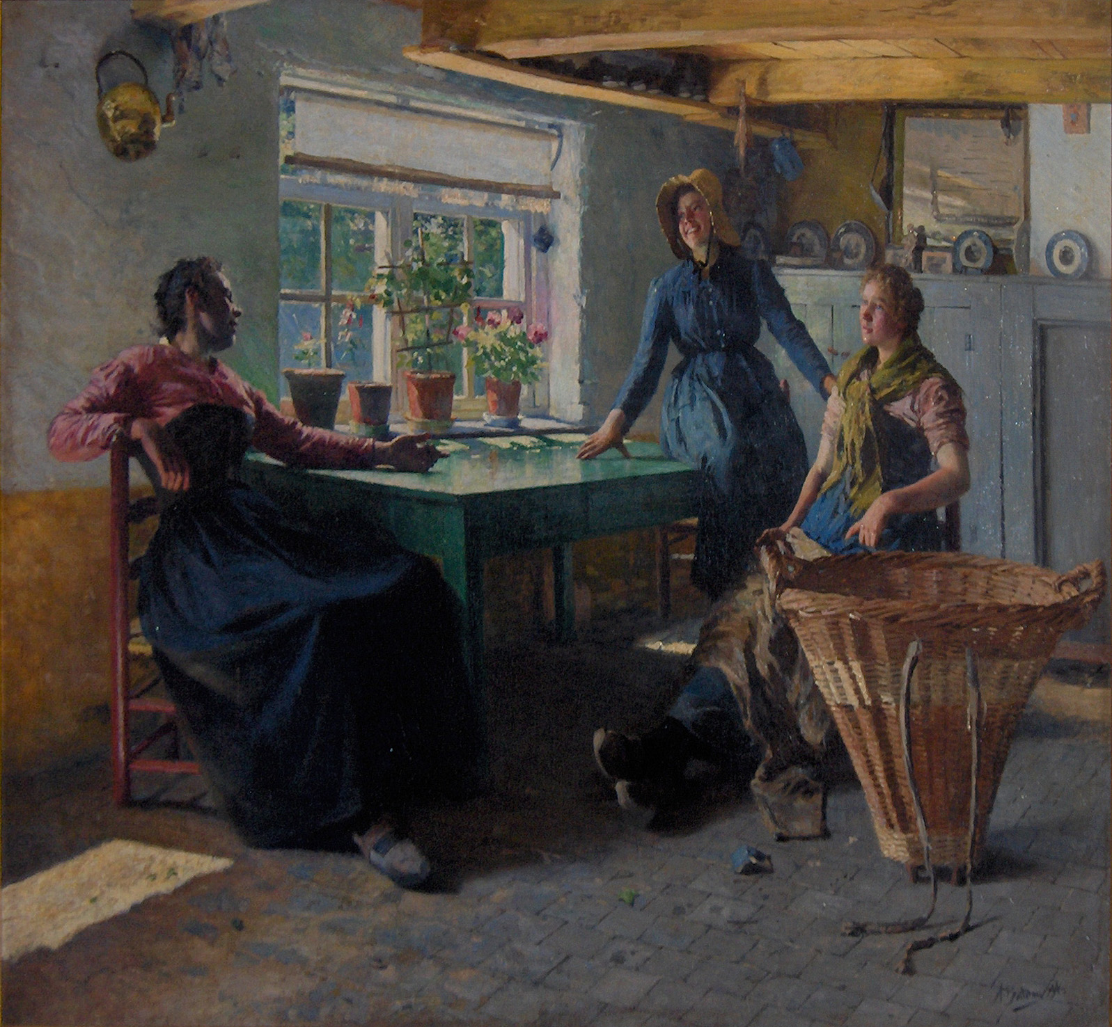 "Interior with fisherman's wives", painting by Aloïs Boudry